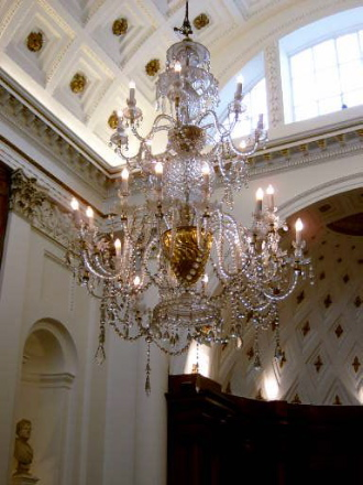 Chandelier in Irish House of Lords - no c/r my image